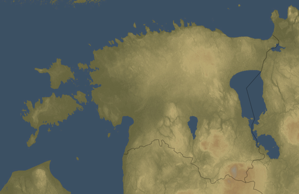 Relief map of Estonia created using Shuttle Radar Topography Mission data.